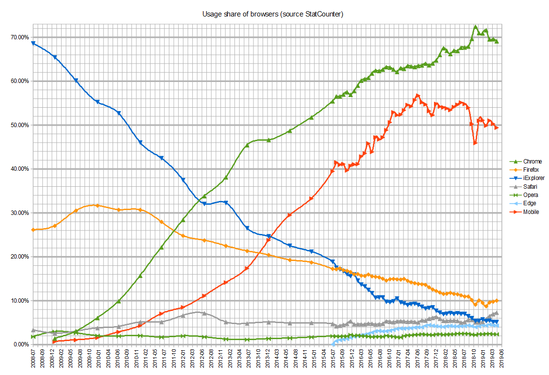 Usage share of web browsers as tallied by StatCounter (2008 until 2019-04-29)